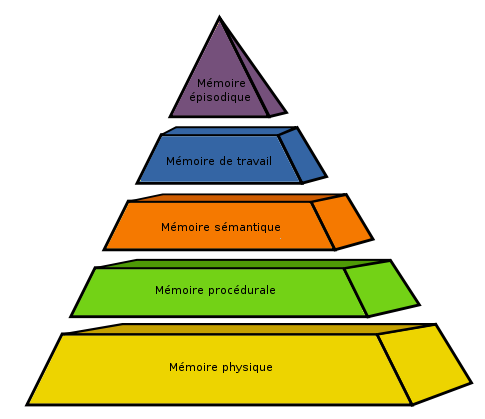 Memory's pyramid